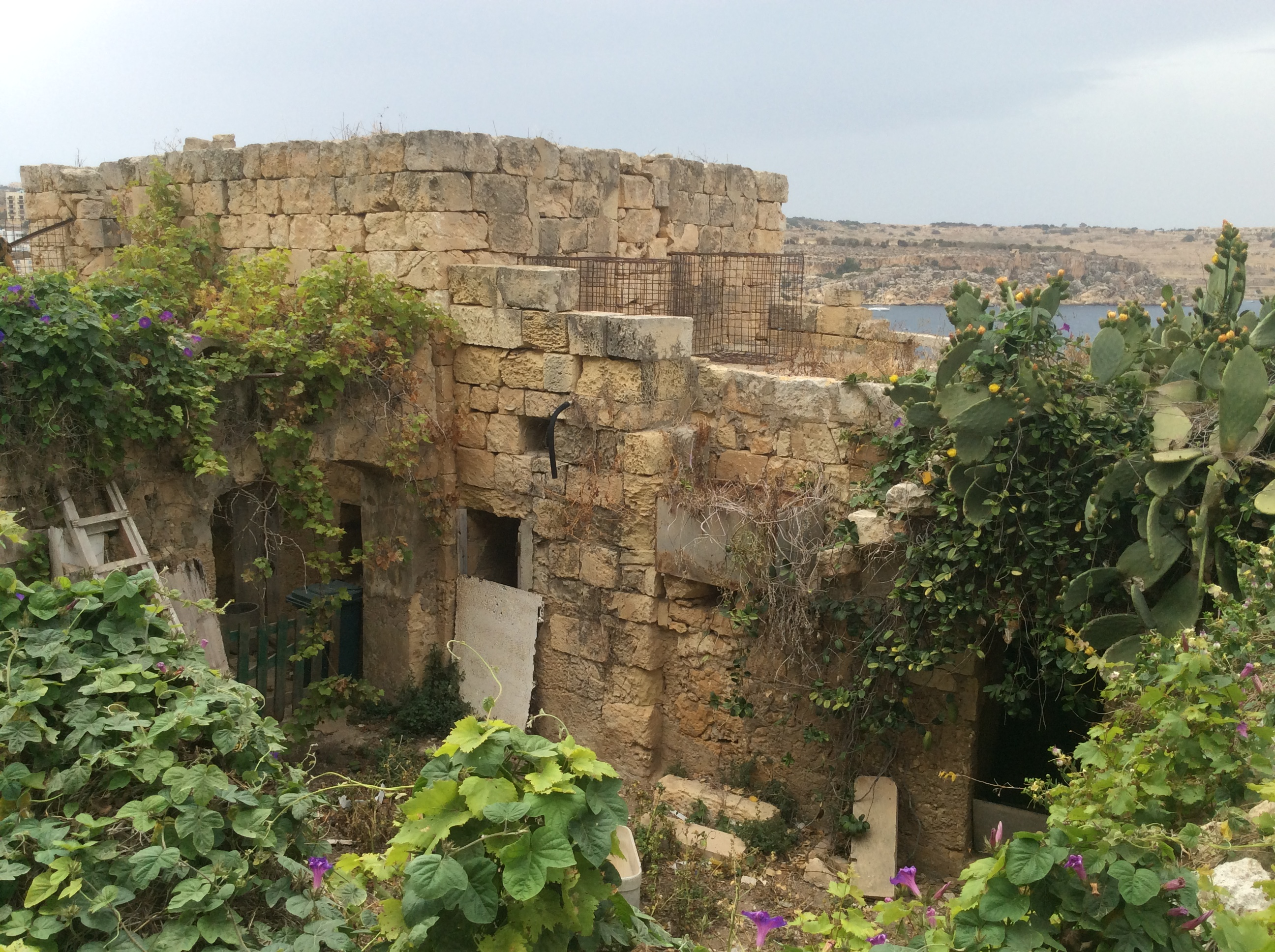 Ta Tabibu Farmhouse dilapidated